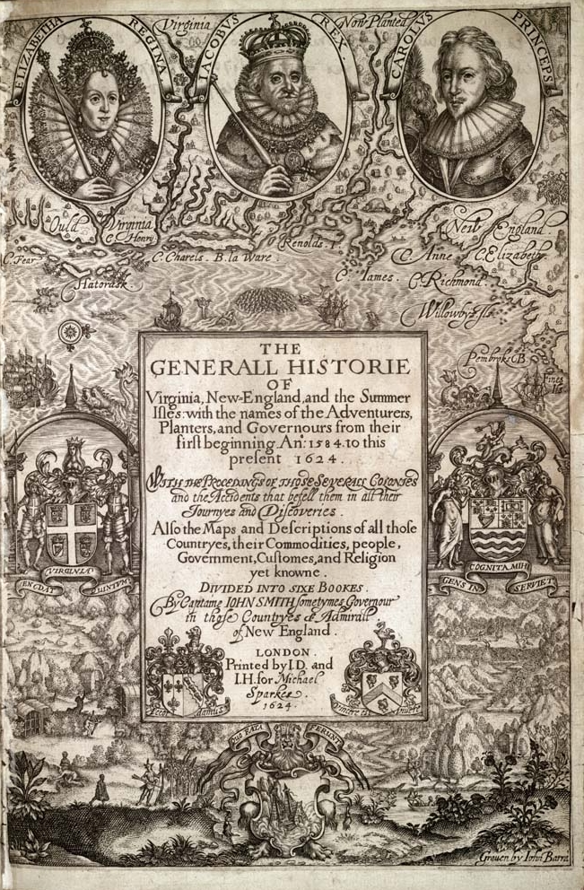 Cover of "The Generall Historie of Virginia, New-England, and the Summer Isles" (The General History of Virginia, New England, and the Somers Isles), by Captain John Smith, 1624. 'Graven' by John Barra.